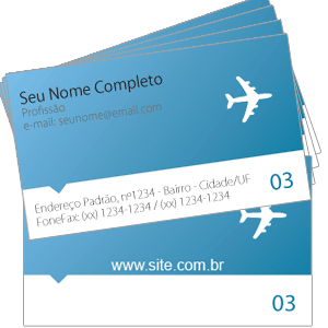 Business Card Template